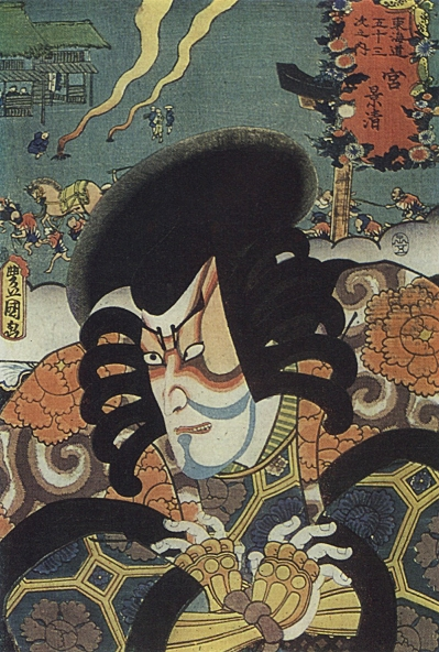 The actor Ichikawa Danjuro VIII as Kagekiyo, from the series ’The 53 stations of the Tokaidō highway’ (or Yakusha Tôkaidô), station Miya, by Utagawa Kunisada (signed as Toyokuni), 1852